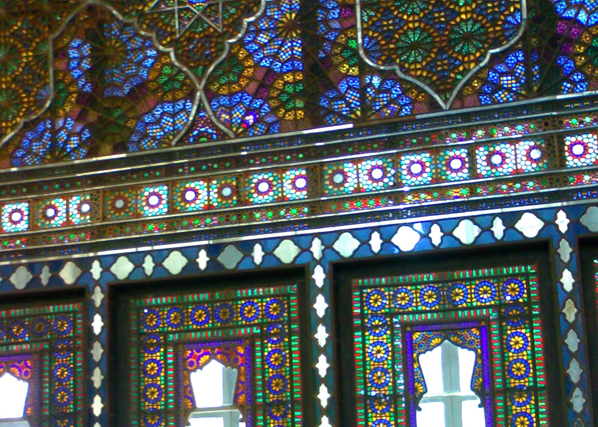 Orosi windows in Golestan Palace.